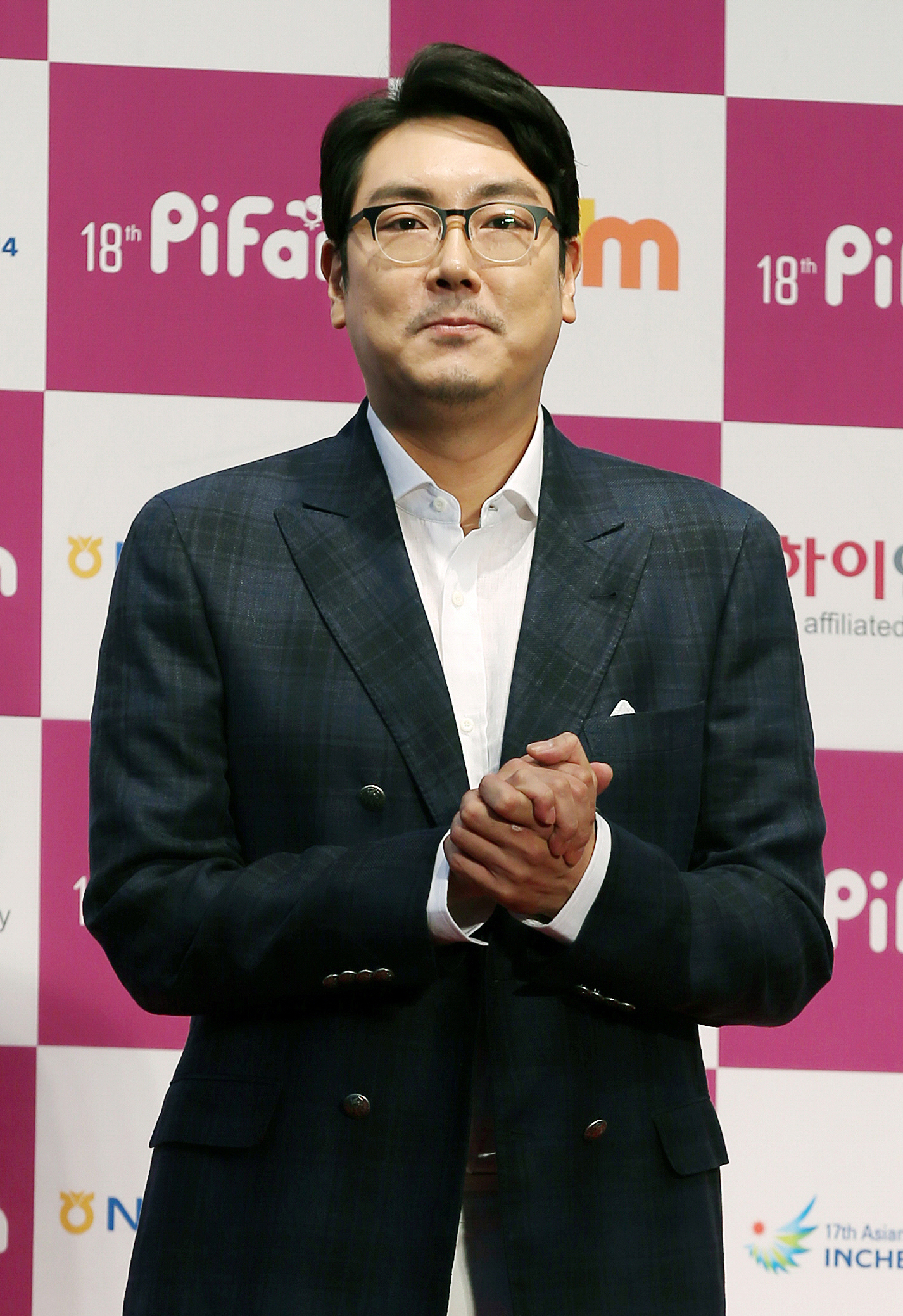 Actor Cho Jin-woong arrives at the red carpet event of the Pifan in Bucheon on July 17, 2014